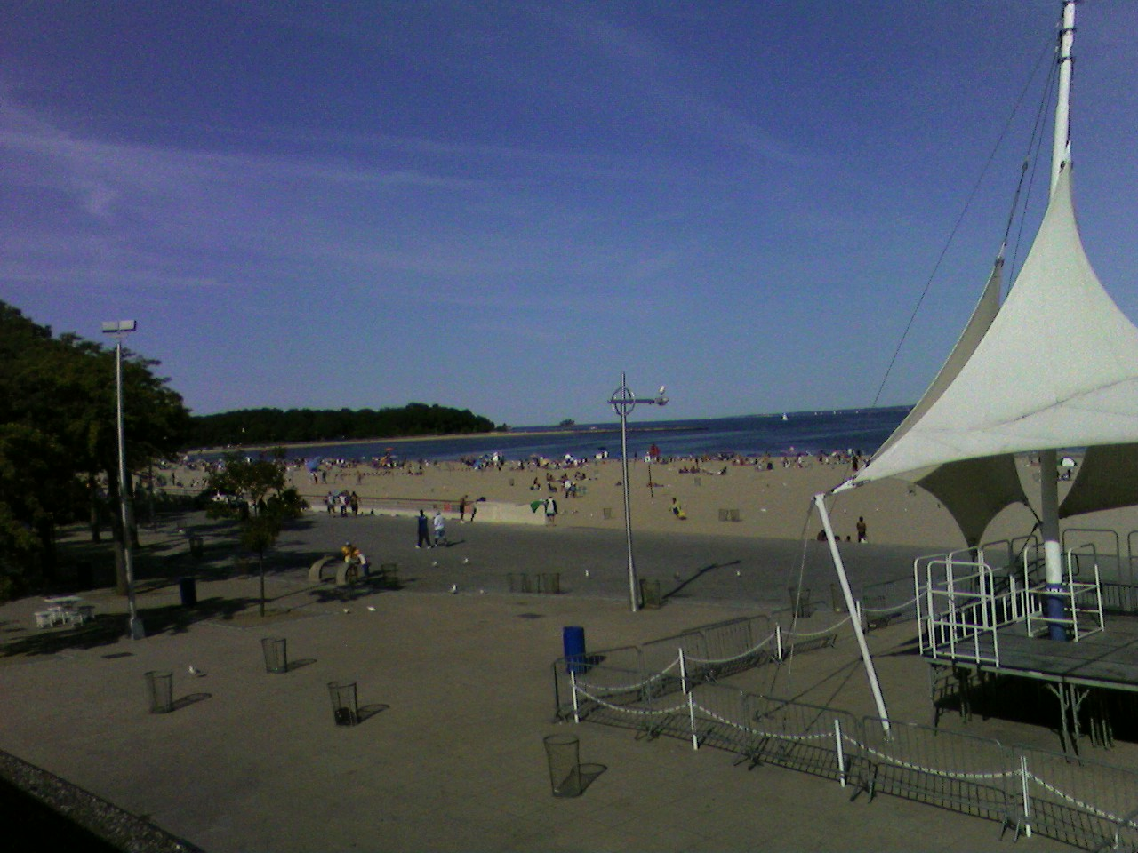 Orchard Beach in The Bronx. August 2006.